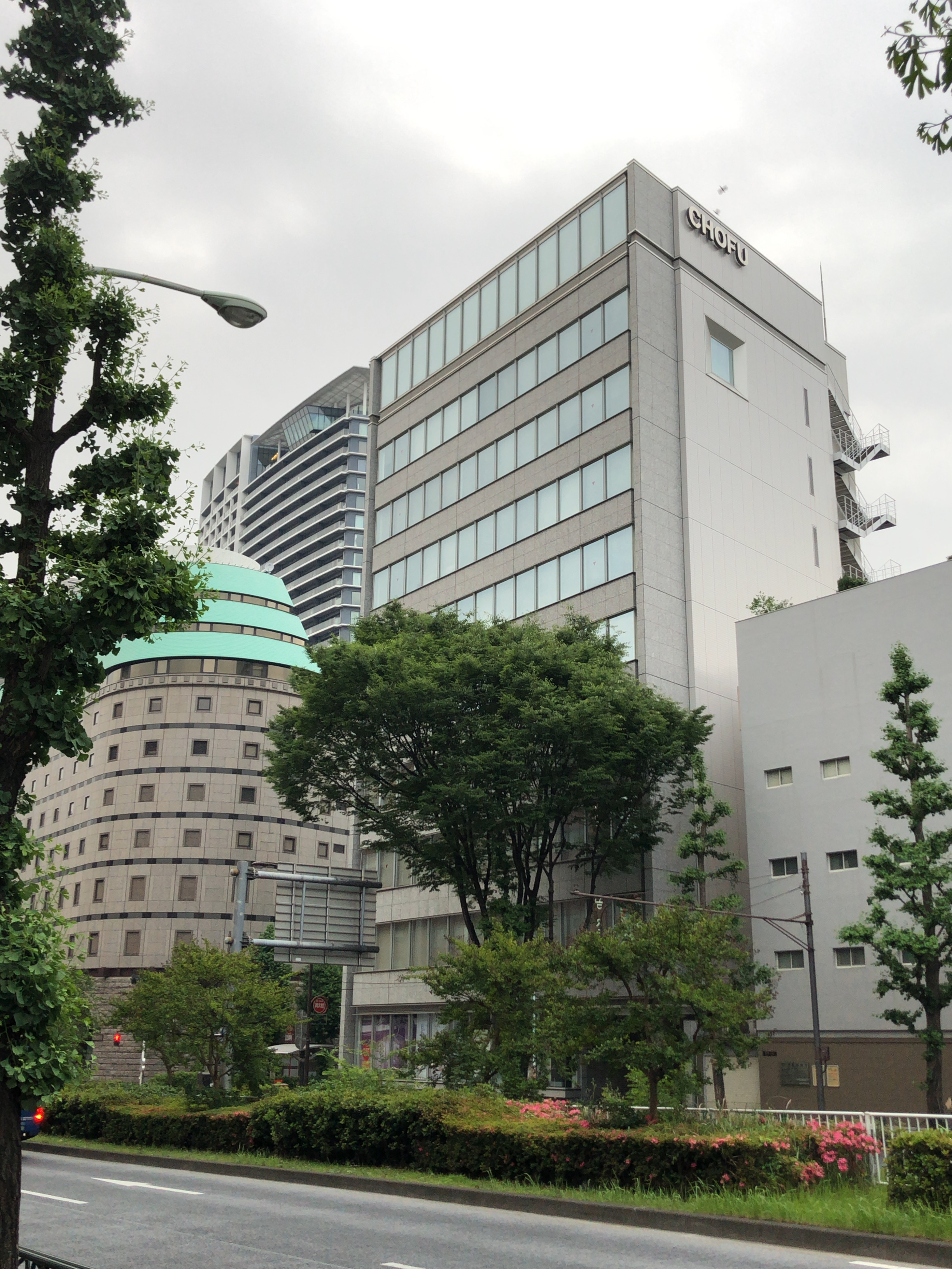 CHOFU SEISAKUSHO - Tokyo branch